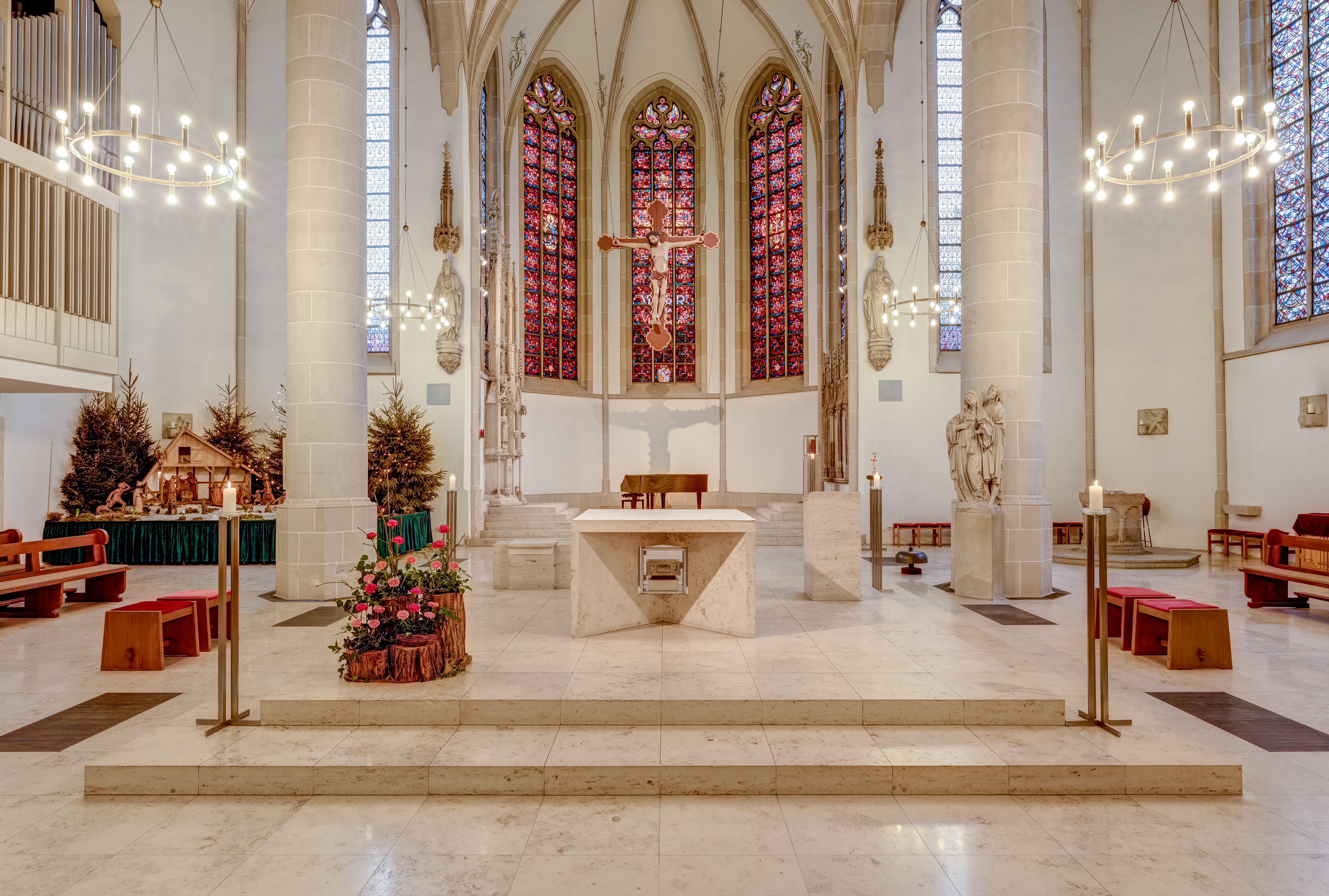 Interior view of St. Viktor Church, Dülmen; North Rhine-Westphalia, Germany